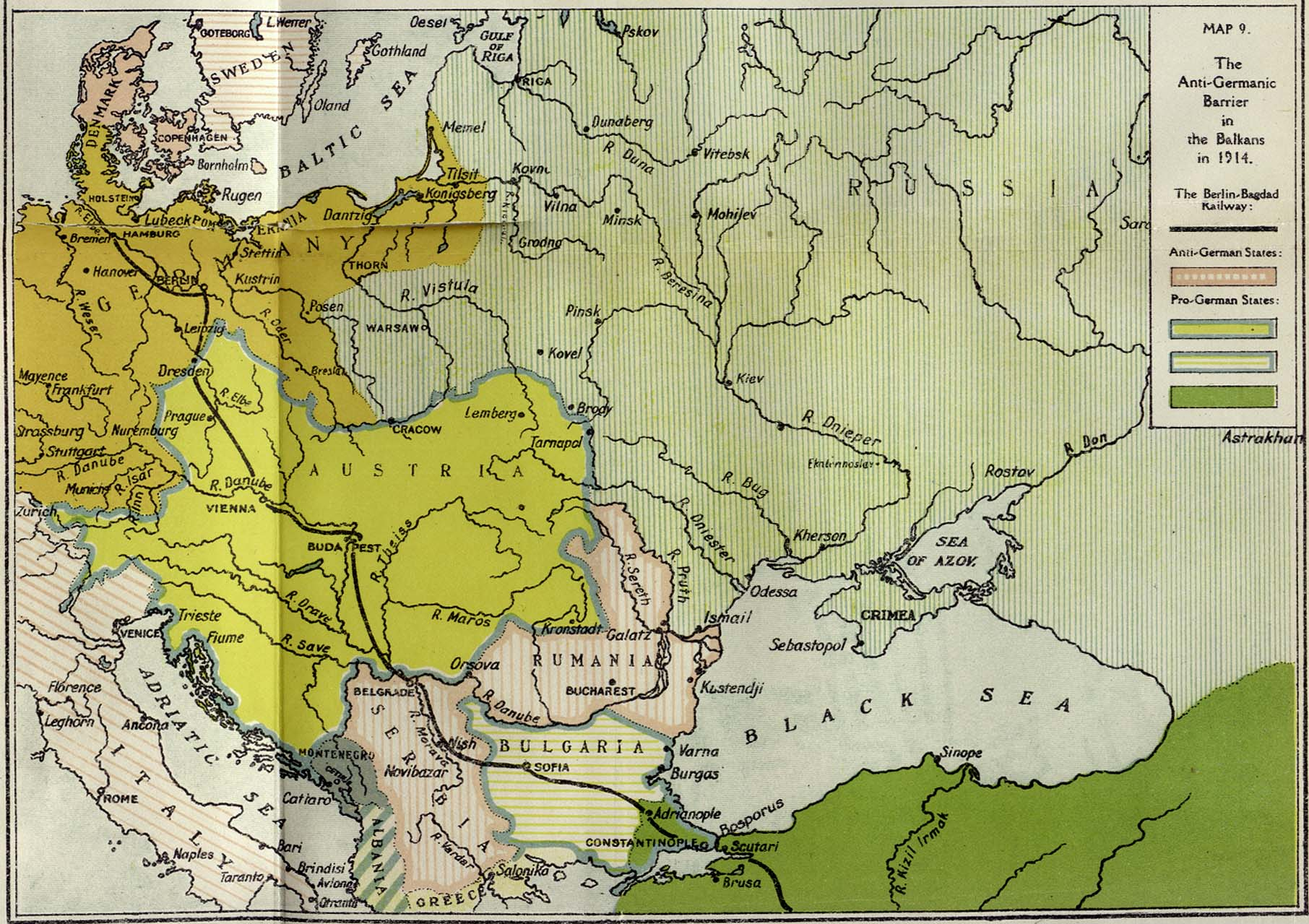 The Anti-Germanic Barrier in the Balkans in 1914.